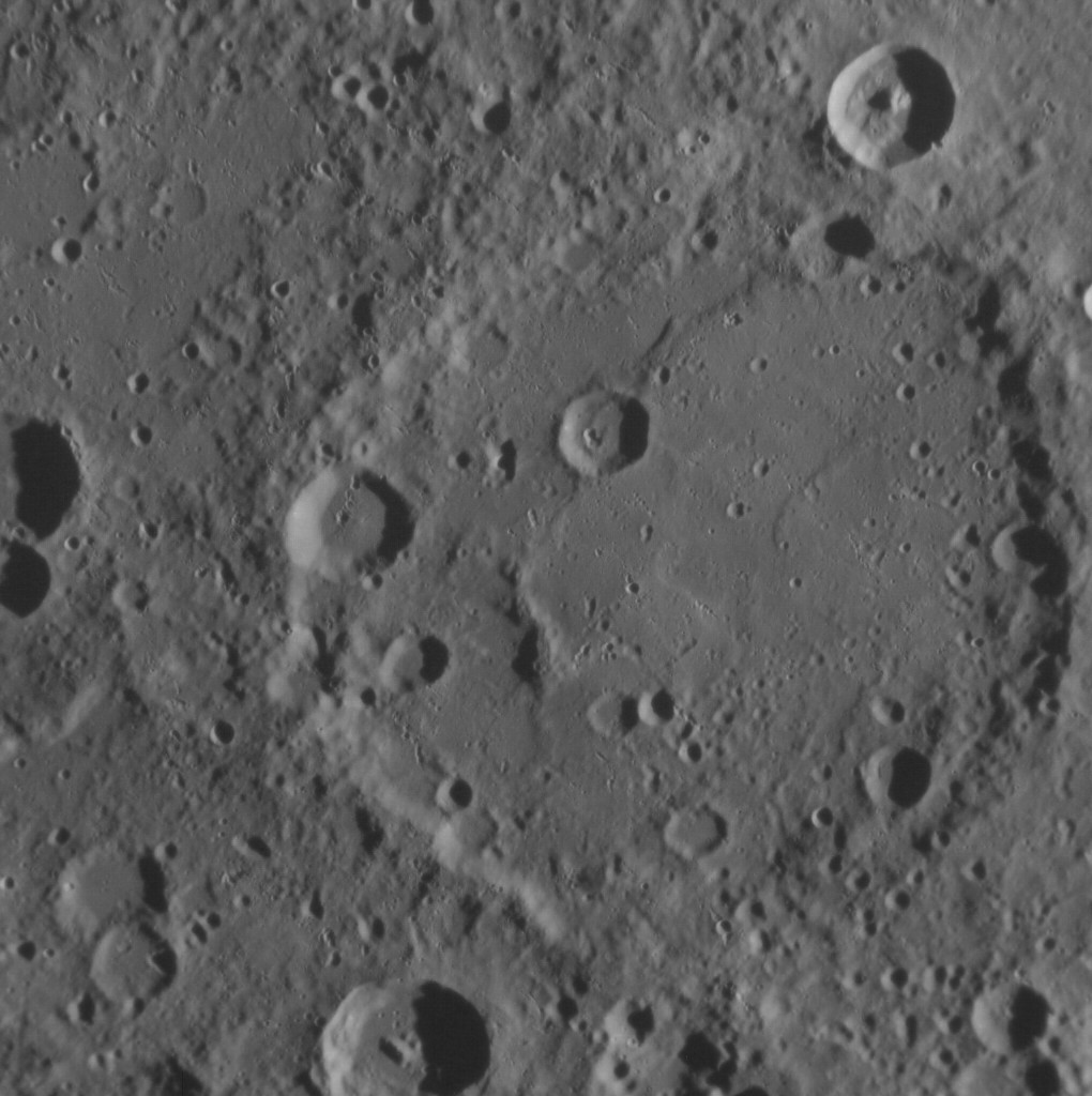 Takayoshi crater on Mercury. MESSENGER Narrow Angle Camera image. Emission Angle: 23.0 Incidence Angle: 77.4 Latitude: -37.2 Longitude: 195.6 Phase Angle: 85.5